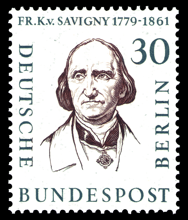 stamp series, men of the history of Berlin II, Friedrich Carl von Savigny, (1779-1861)